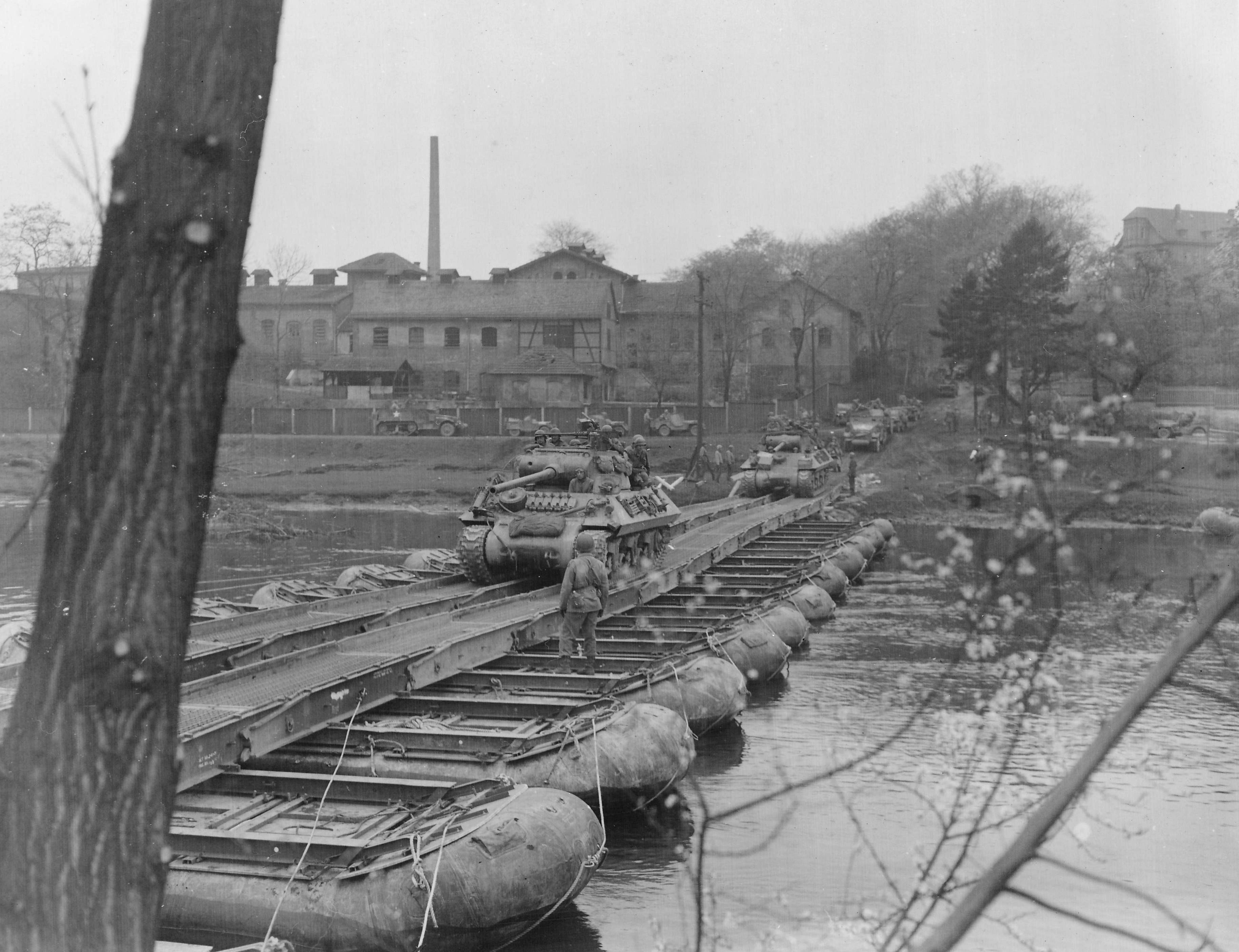 607th Tank Destroyer Battalion crossing the Saale River in Saalfeld, Germany, April 14, 1945